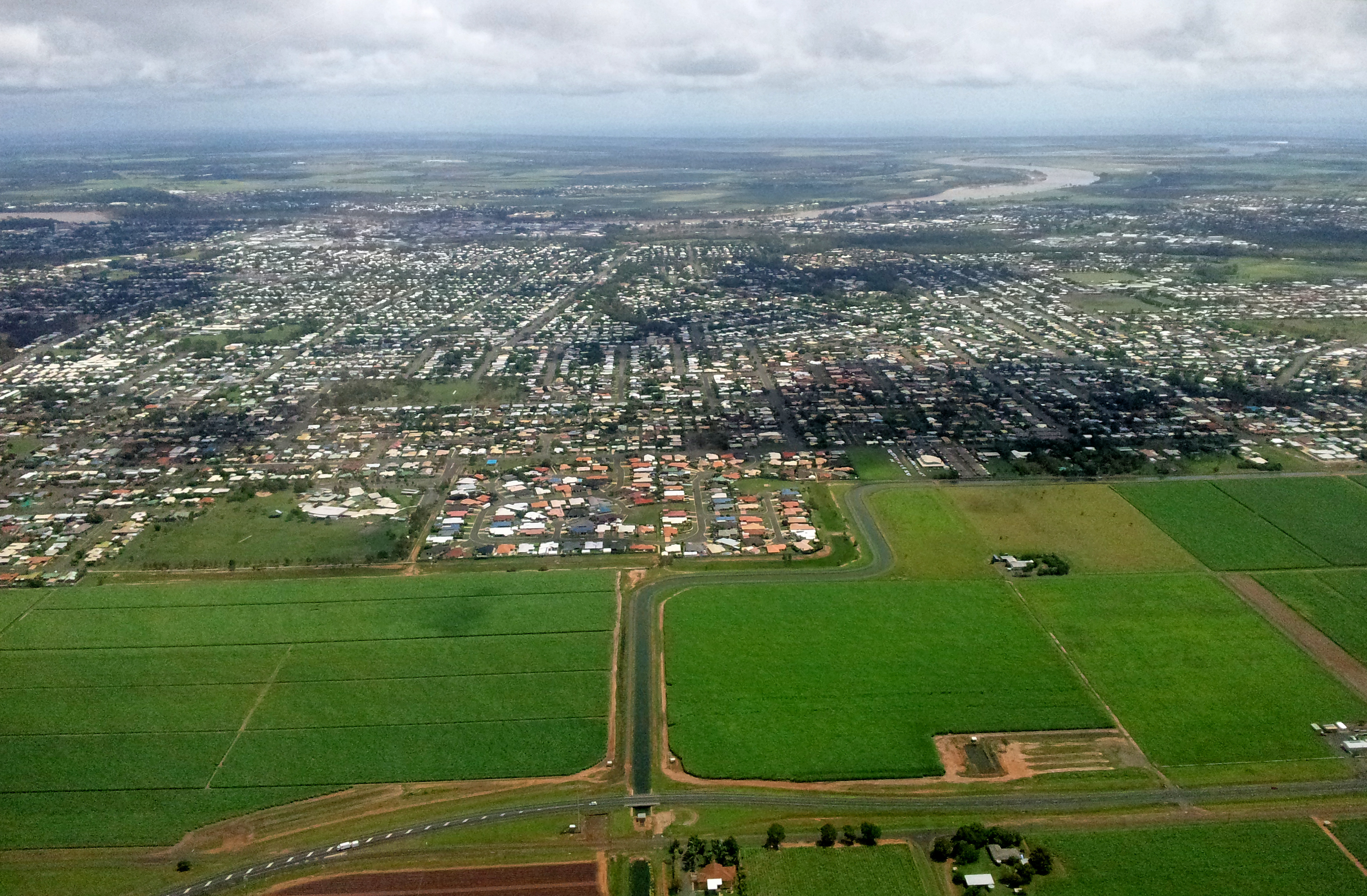 Aerial photo of Bundaberg, looking towards the north